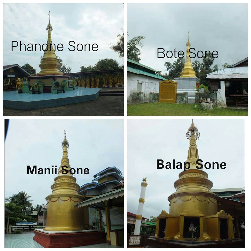 Sone Lay Sone2